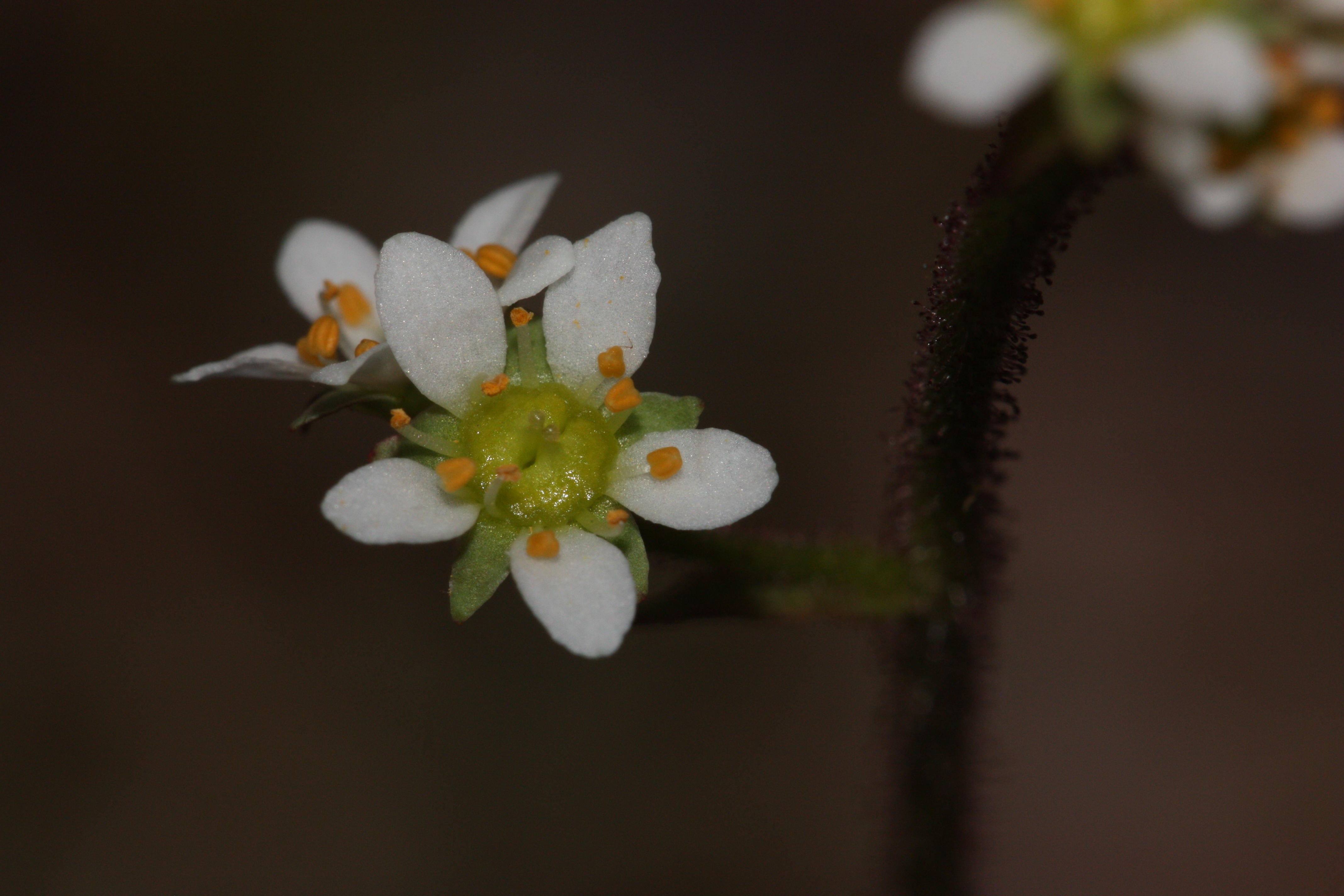 Wholeleaf Saxifrage Viewpoint location: Catherine Creek Trail (north of road), Catherine Creek Day Use Area Viewpoint elevation: 163 meter (535 ft) Location source: Google Earth Location Datum: WGS84